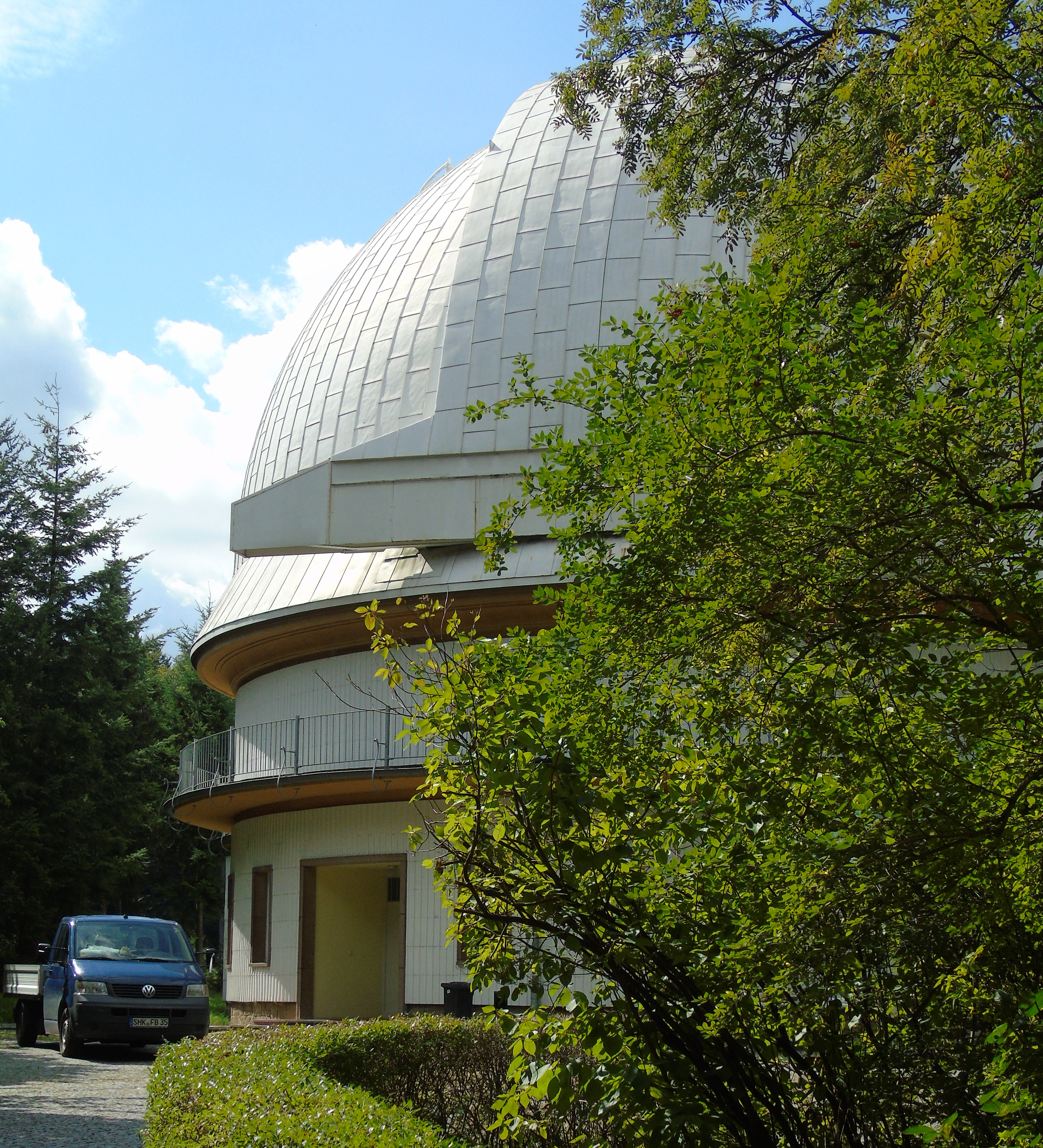 Karl-Schwarzschild-Observatory